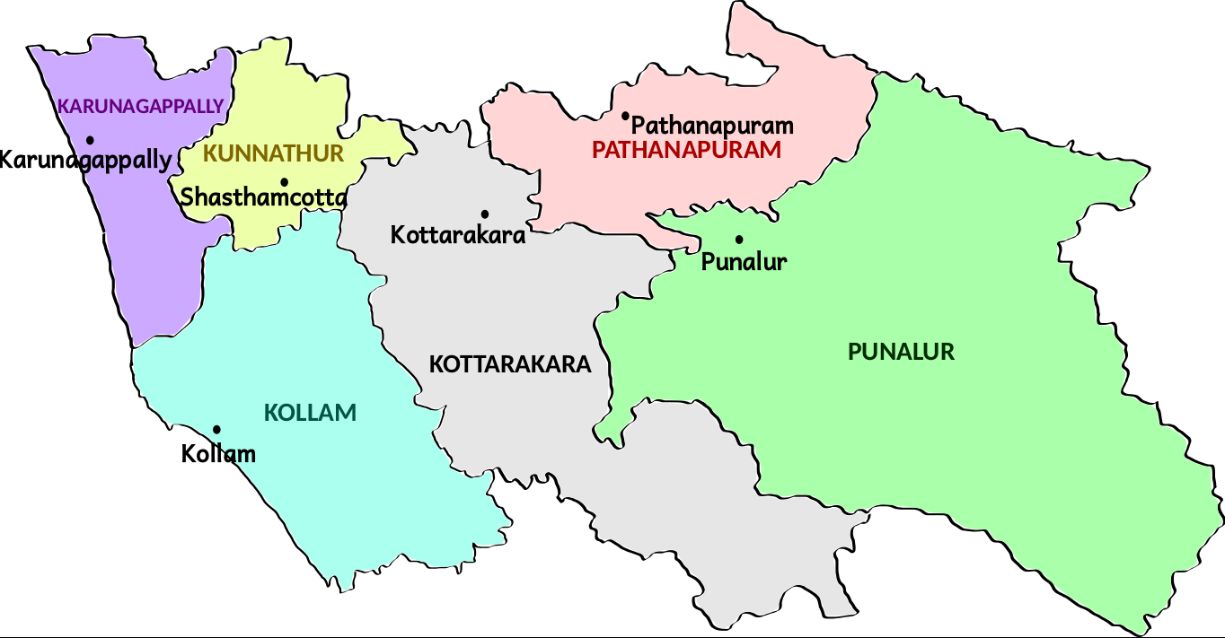 It is a political map of the subdistricts of Kollam district, Kerala, India